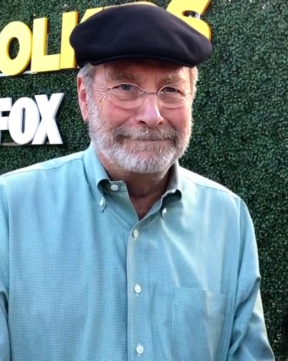 Actor/comedian Martin Mull